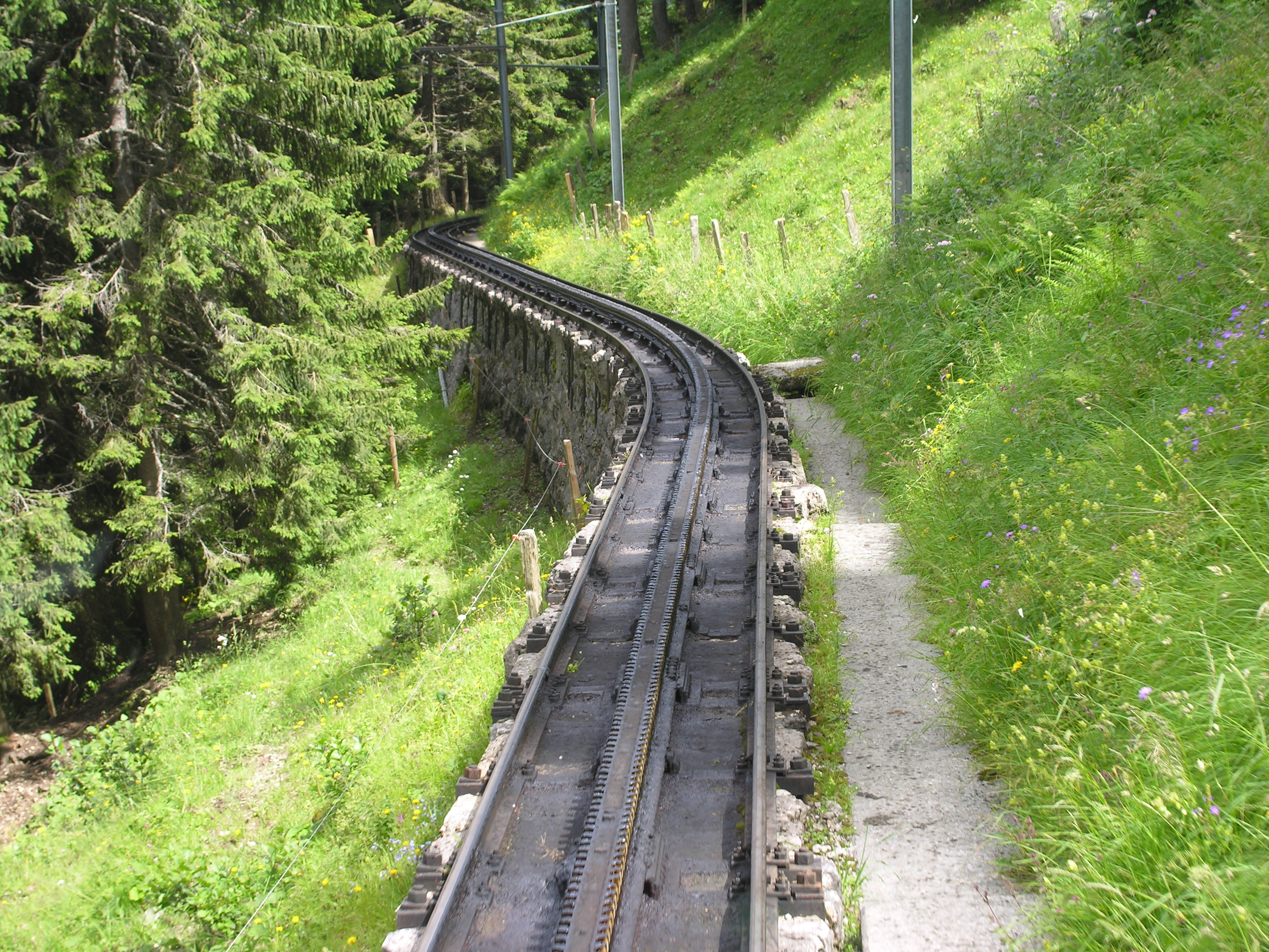 Pilatus railway track. It is seen that it is laid without ballast.